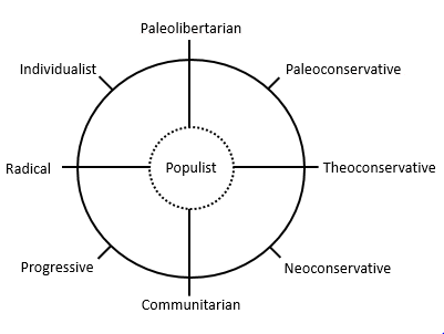 Eight distinct socio-political perspectives diverging from the populist center according to their various regard for rank (archy) and force (kratos).